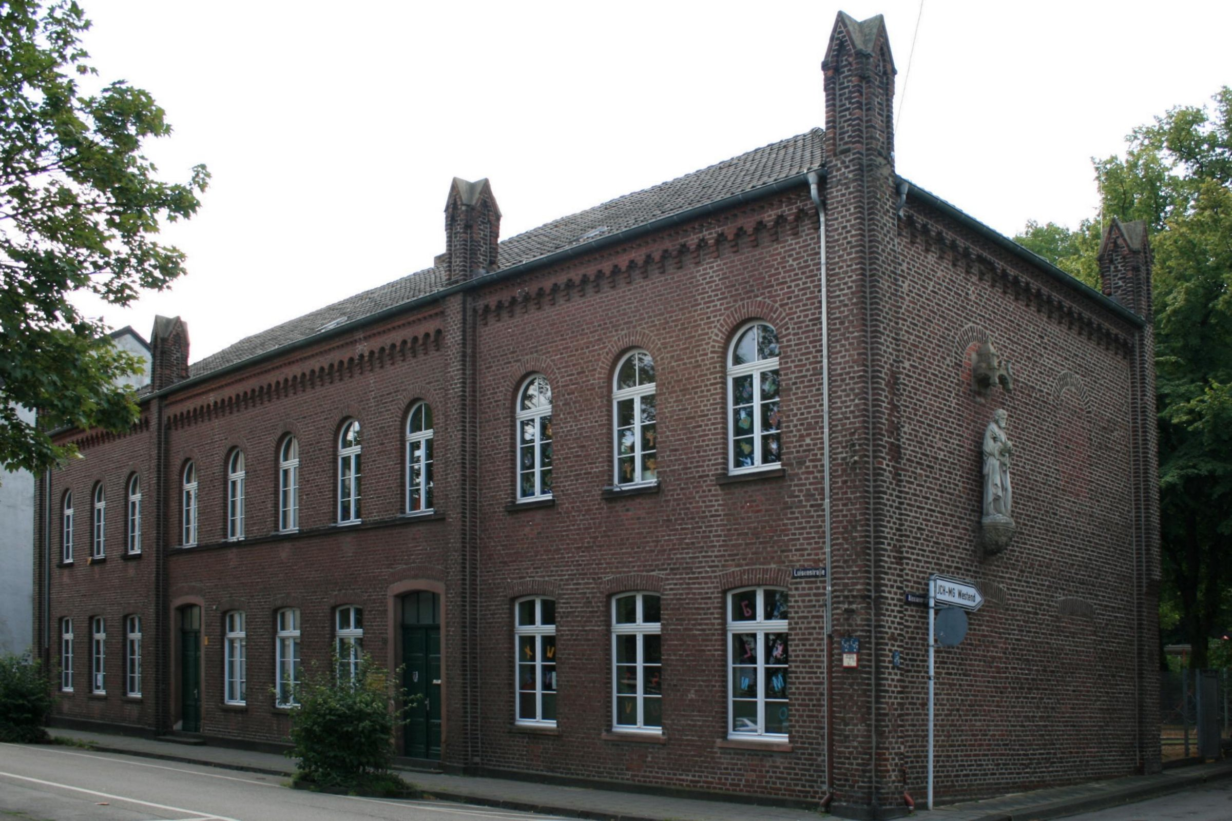 Cultural heritage monument No. L 037 in Mönchengladbach